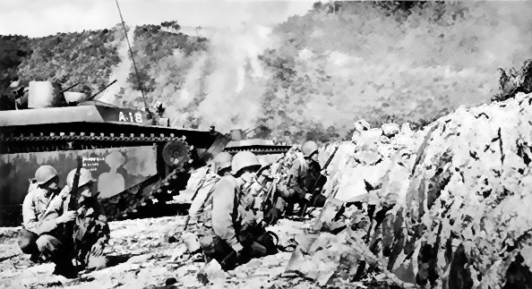 LANDINGS IN THE KERAMAS, made by the 77th Division, met little opposition. Zamani Island (above) was taken by the 1st BLT, 305th Infantry, some soldiers of which are shown just before the started inland. Amtracks were unable to negotiate the seawall and were left at the beach. Below is a scene on a beach at Tokashiki, captured by the 1st BLT, 306th, on 27 March 1945. Soldier (right) seems puzzled by the absence of opposition